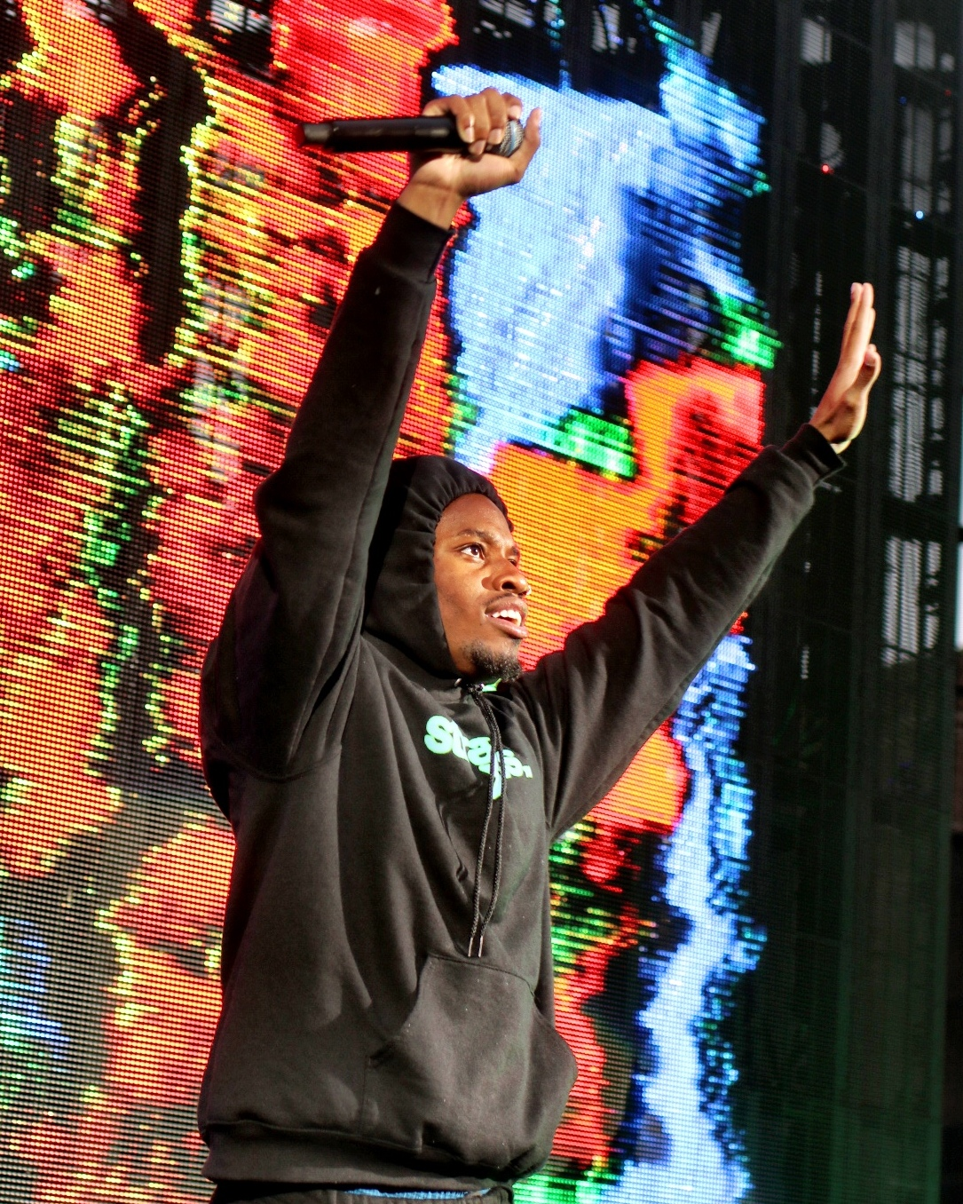 Denzel Curry ::: Red Rocks::: 06.05.19